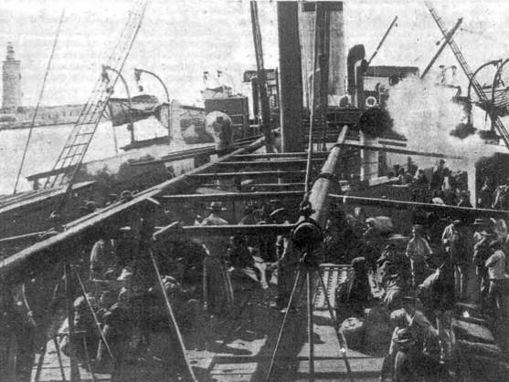 1907 Newspaper photo showing Spanish immigrants on the deck of the SS Heliopolis. From the ABC (Madrid newspaper), 11 March 1907, p. 1